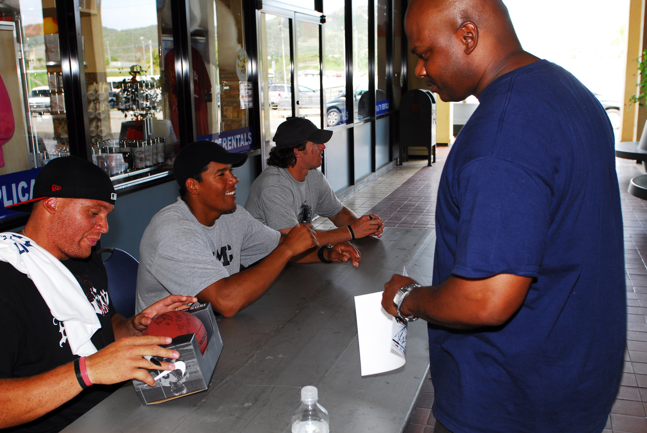 Navy Chief Petty Officer Quincy L. Jackson, a Joint Task Force Guantanamo service member, watches Billy Miller, New Orleans Saints’ tight end, sign his football at U.S. Naval Station Guantanamo Bay, June 27, 2009. Drew Brees, New Orleans Saints’ quarterback, and Donnie Edwards, Kansas City Chiefs’ defensive linebacker, also participated in the United Service Organization tour visiting deployed service members. The USO schedules many meet-and-greet events to boost service member morale. (JTF Guantanamo photo by Army Sgt. Michael Baltz)